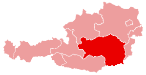 Map of Styria in Austria